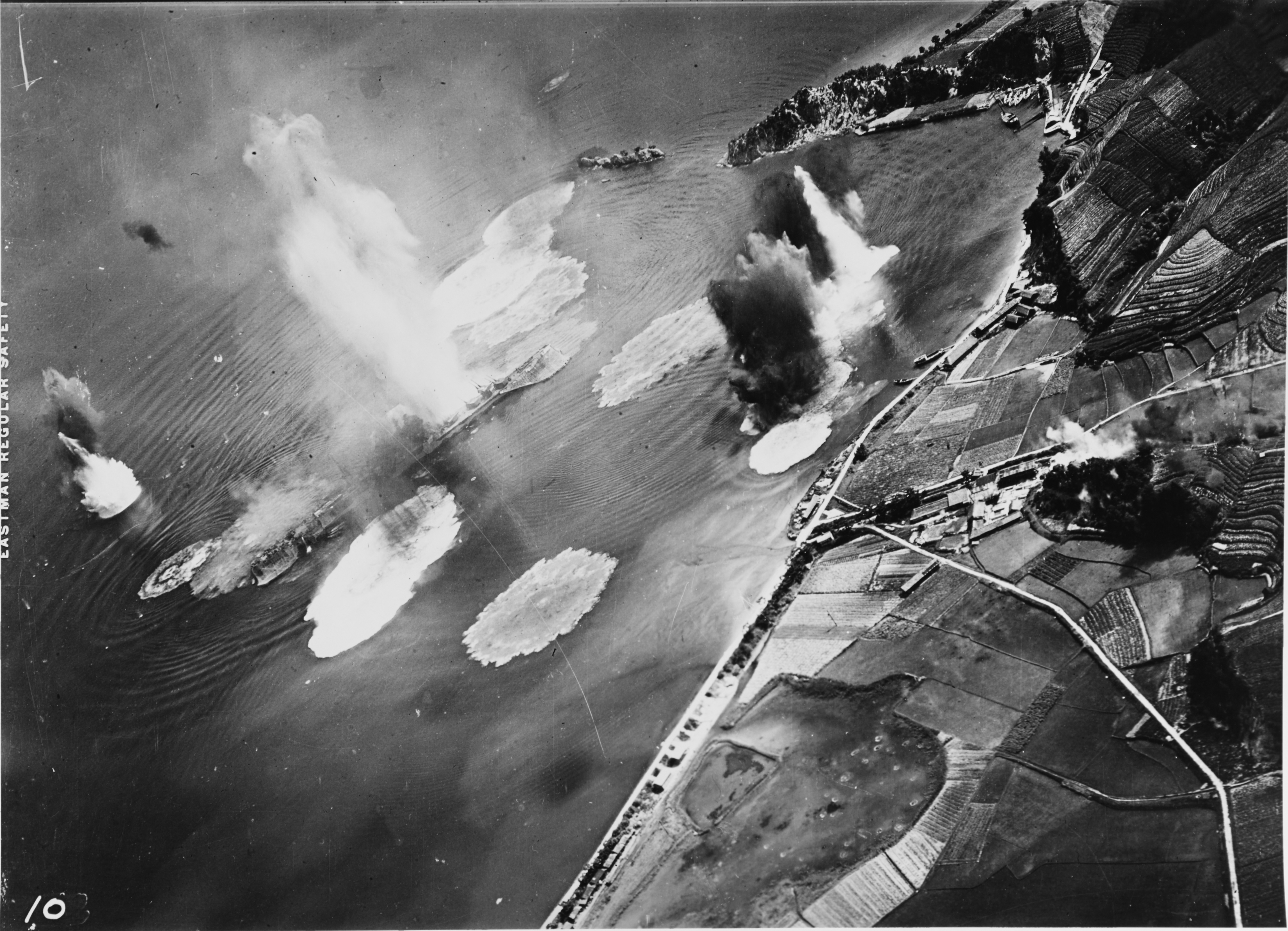 Japanese heavy cruiser Tone under aerial attack off Etajima, Kure. 24 July 1945